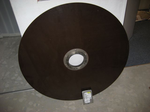 A platter from an old harddisk which is 1 meter in diameter. Pulled from a mainframe system.